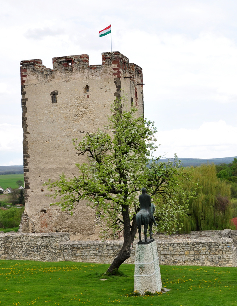 Nagyvázsony Kinizsi-vár